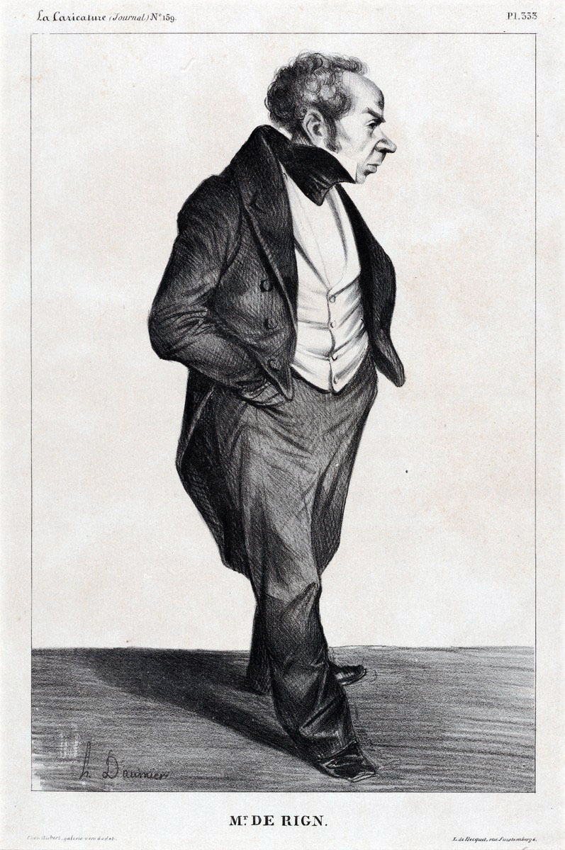 Caricature of Henri de Rigny published in La Caricature. National Gallery of Art, Rosenwald Collection, 1943.3.2932